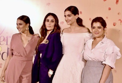 Indian actresses Swara Bhaskar, Kareena Kapoor Khan, Sonam K Ahuja and Shikha Talsania (l-r) at a promotional event for their film Veere Di Wedding in 2018